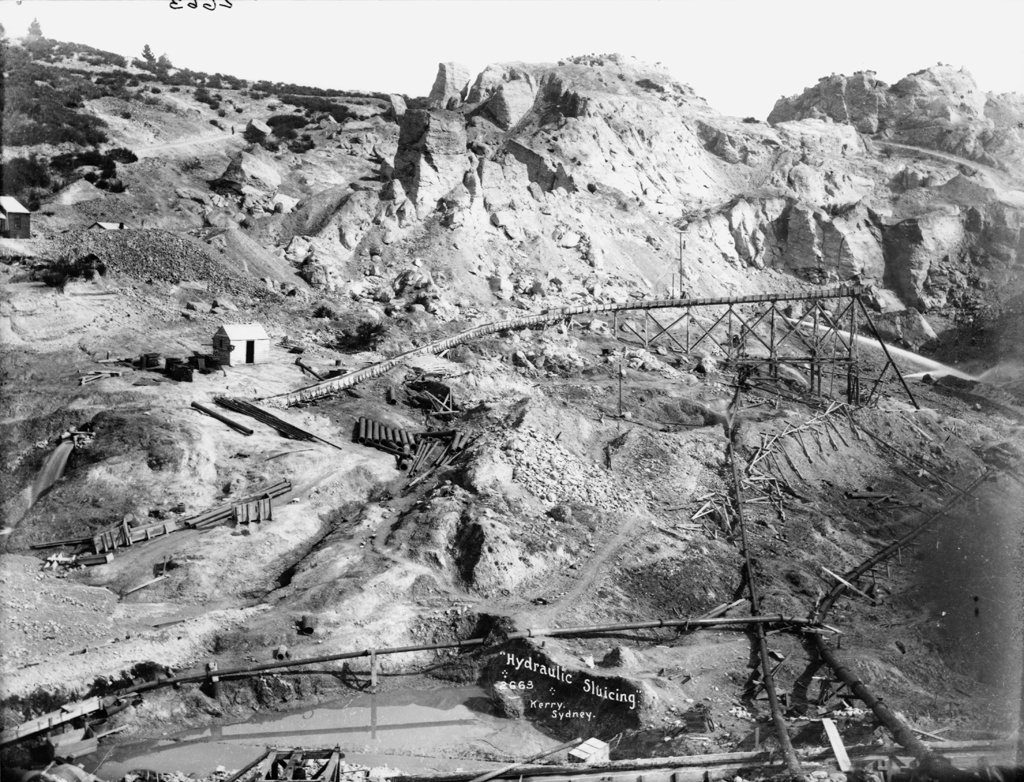 Format: Glass plate negative. Repository: Tyrrell Photographic Collection, Powerhouse Museum Part Of: Powerhouse Museum Collection General information about the Powerhouse Museum Collection is available at Persistent URL: Acquisition credit line: Gift of Australian Consolidated Press under the Taxation Incentives for the Arts Scheme, 1985